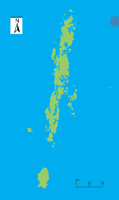 Outline map of the Andaman Islands, showing the location of Narcondam Island (highlighted and circled in red). Img created by CJLL Wright.